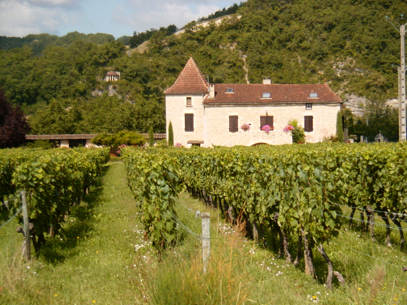 Chateau in the Lot Valley with typical Pigeonnier (dovecote) tower - in the middle of the Cahors vineyard